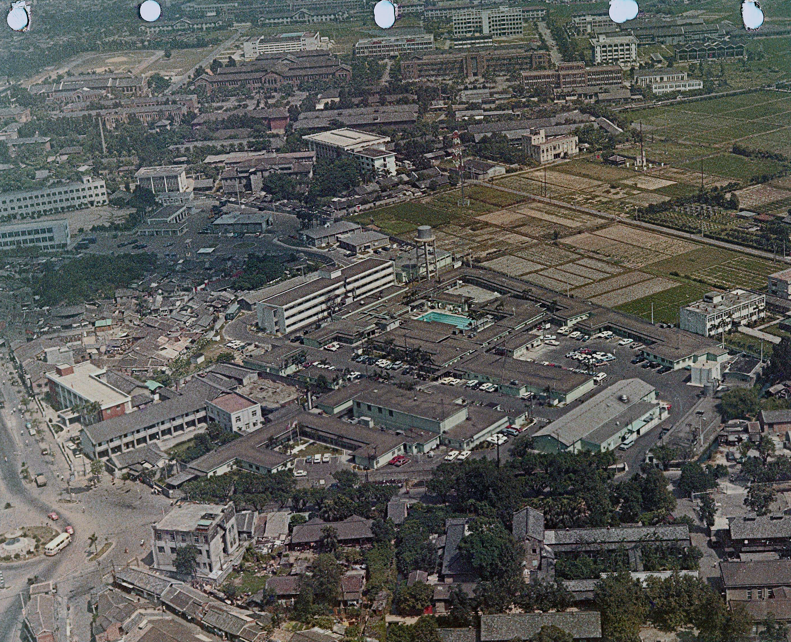 Taipei Air Station, Gongguan, Taipei, Taiwan, in 1968. Aerial view of the base facilities. National Taiwan University can be seen in the top area of this photograph.